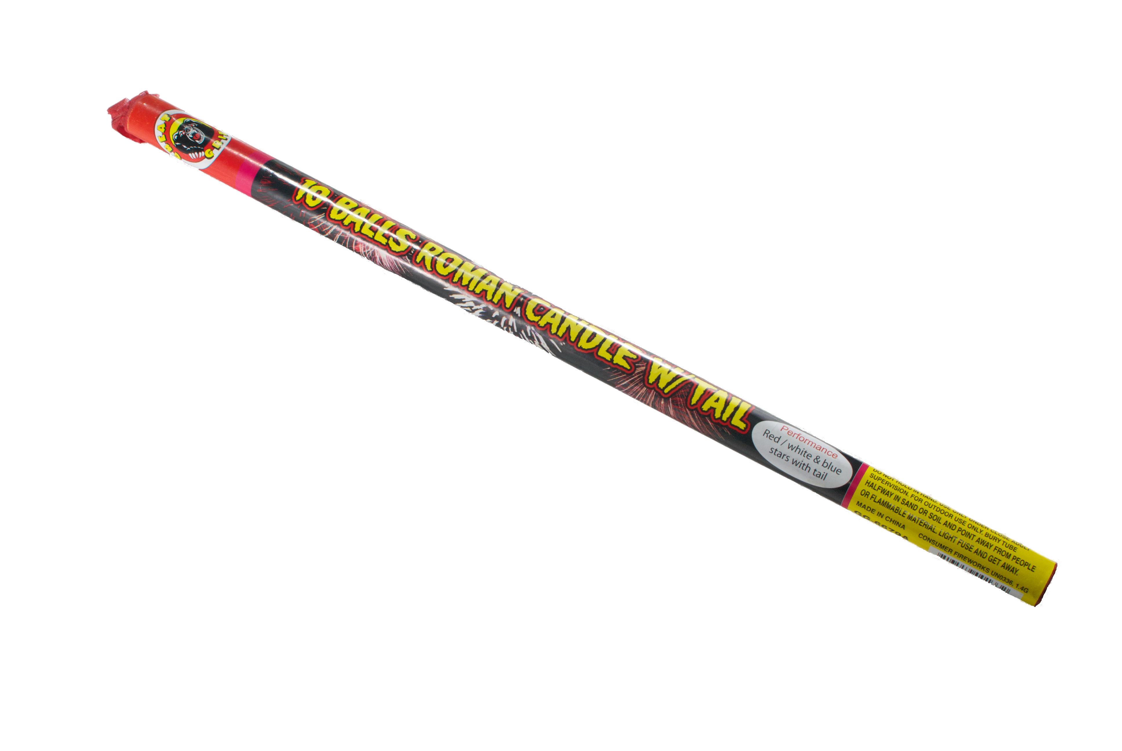 Photo of a typical roman candle